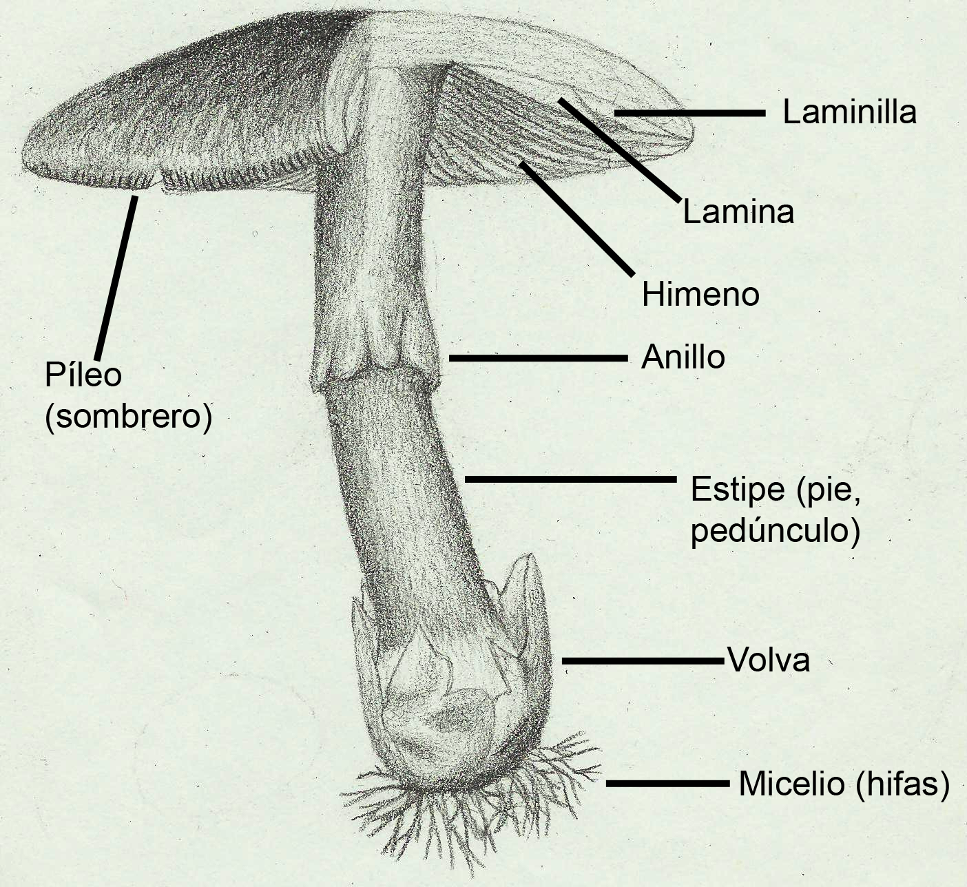 Section of File:Amanita Cesarea.png and signaling sections of a mushroom.